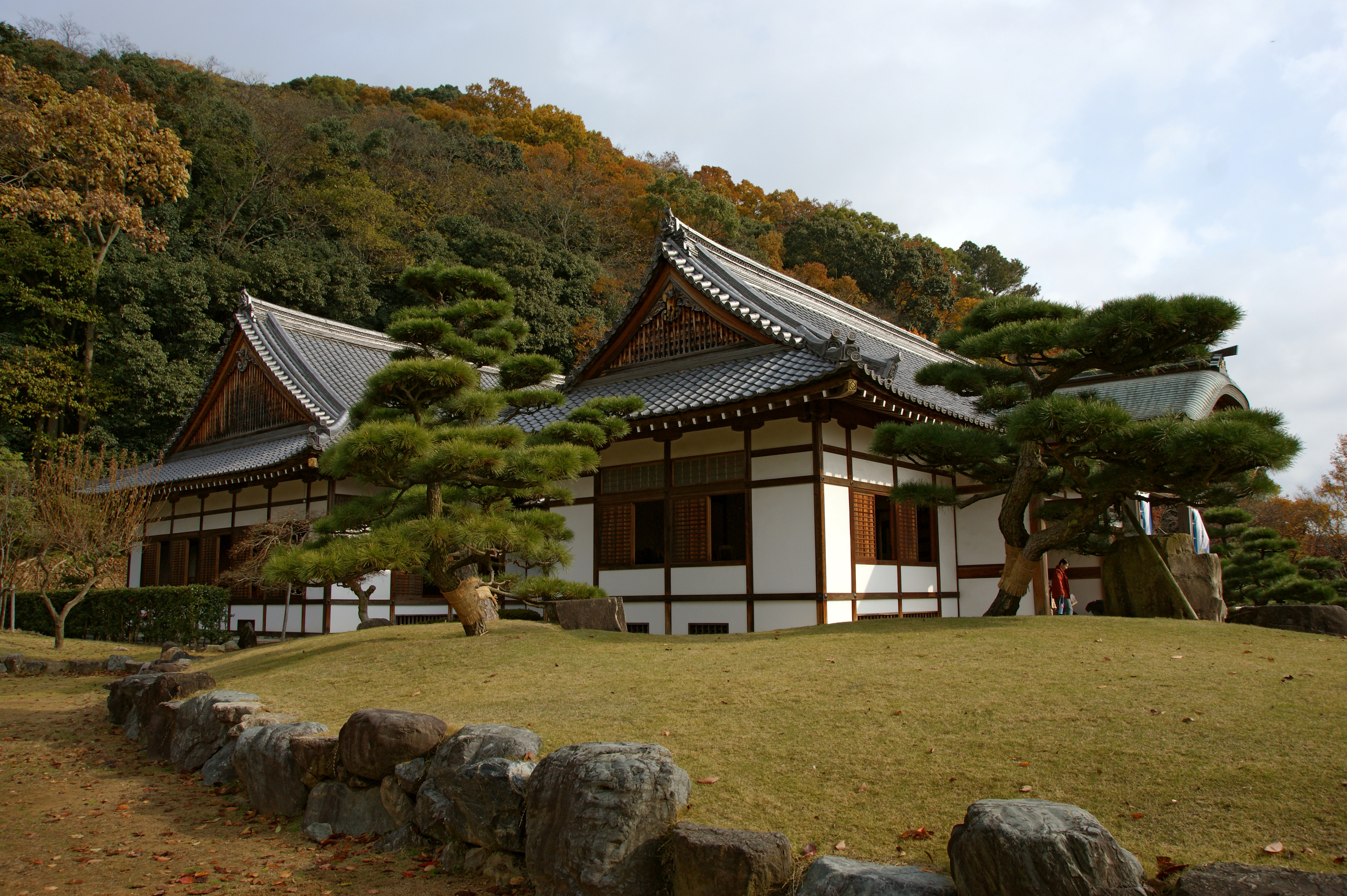 Tatsuno castle, Tatsuno, Hyogo prefecture, Japan